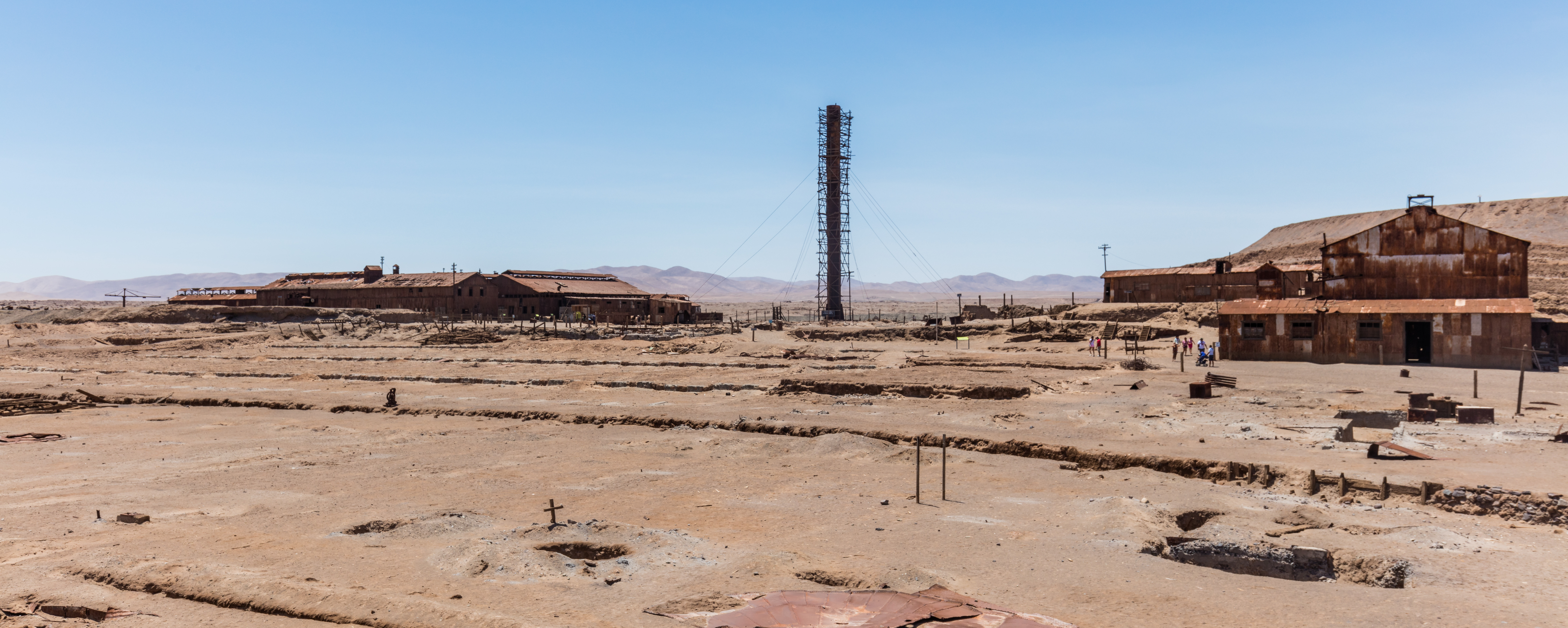 Humberstone and Santa Laura Saltpeter Office, Chile